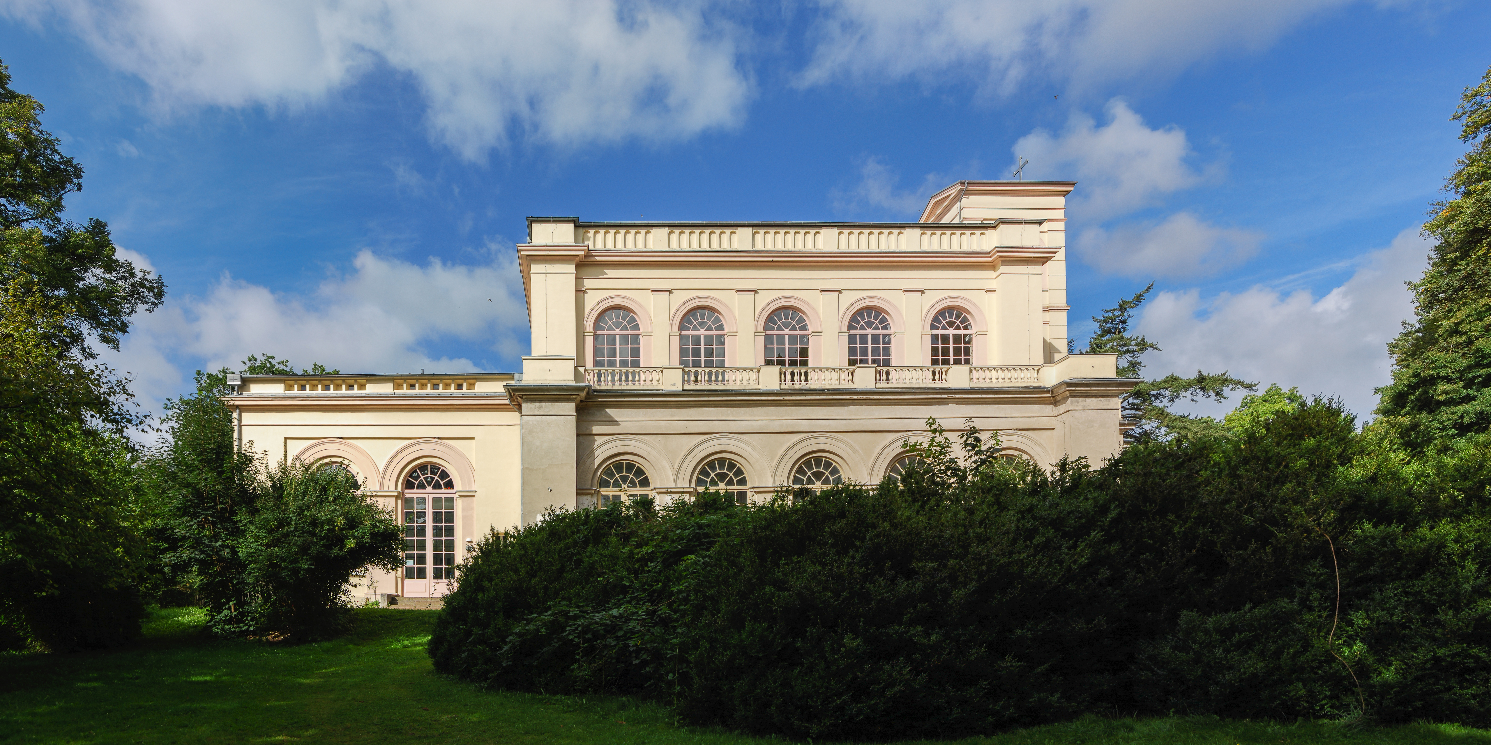 Schlosskirche Putbus, Rügen, Germany.